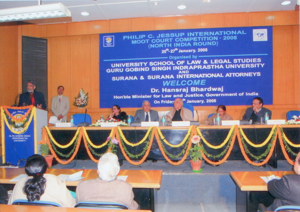 Dr. Hansraj Bhardwaj, Then Hon. Minister for Law, Prof. K K Aggarwal, Vice Chancellor, GGSIPU, Vinod K Jain, Registrar, GGSIPU, Prof. Nomita Aggarwal, Prof. Suman Gupta, Dean, USLLS